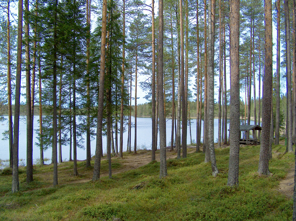 Lake Kalimeenlampi in Oulu/Kiiminki, Finland.